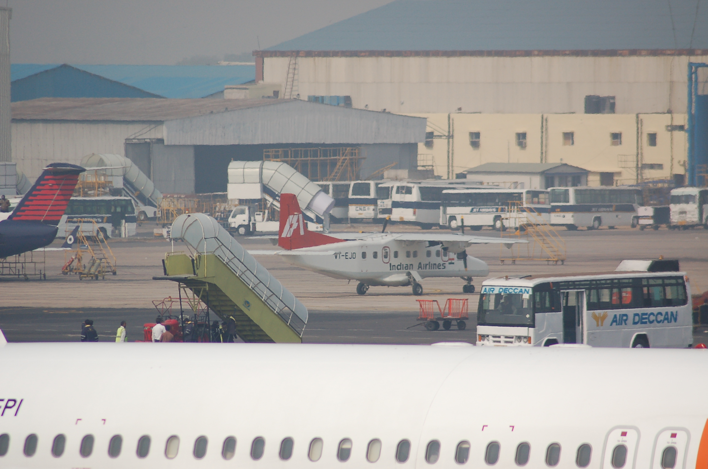 Dornier Do.228 of Indian Airlines at New Delhi Indira Gandhi - DEL, India, 03/02/07.